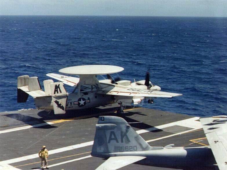 A U.S. Navy Grumman E-2C Hawkeye of airborne early warning squadron VAW-127 Seabats is launched from the aircraft carrier USS Coral Sea (CV-43) in 1989. VAW-127 was assigned to Carrier Air Wing 13 (CVW-13) aboard the Coral Sea for a deployment to the Mediterranean Sea from 31 May to 30 September 1989.